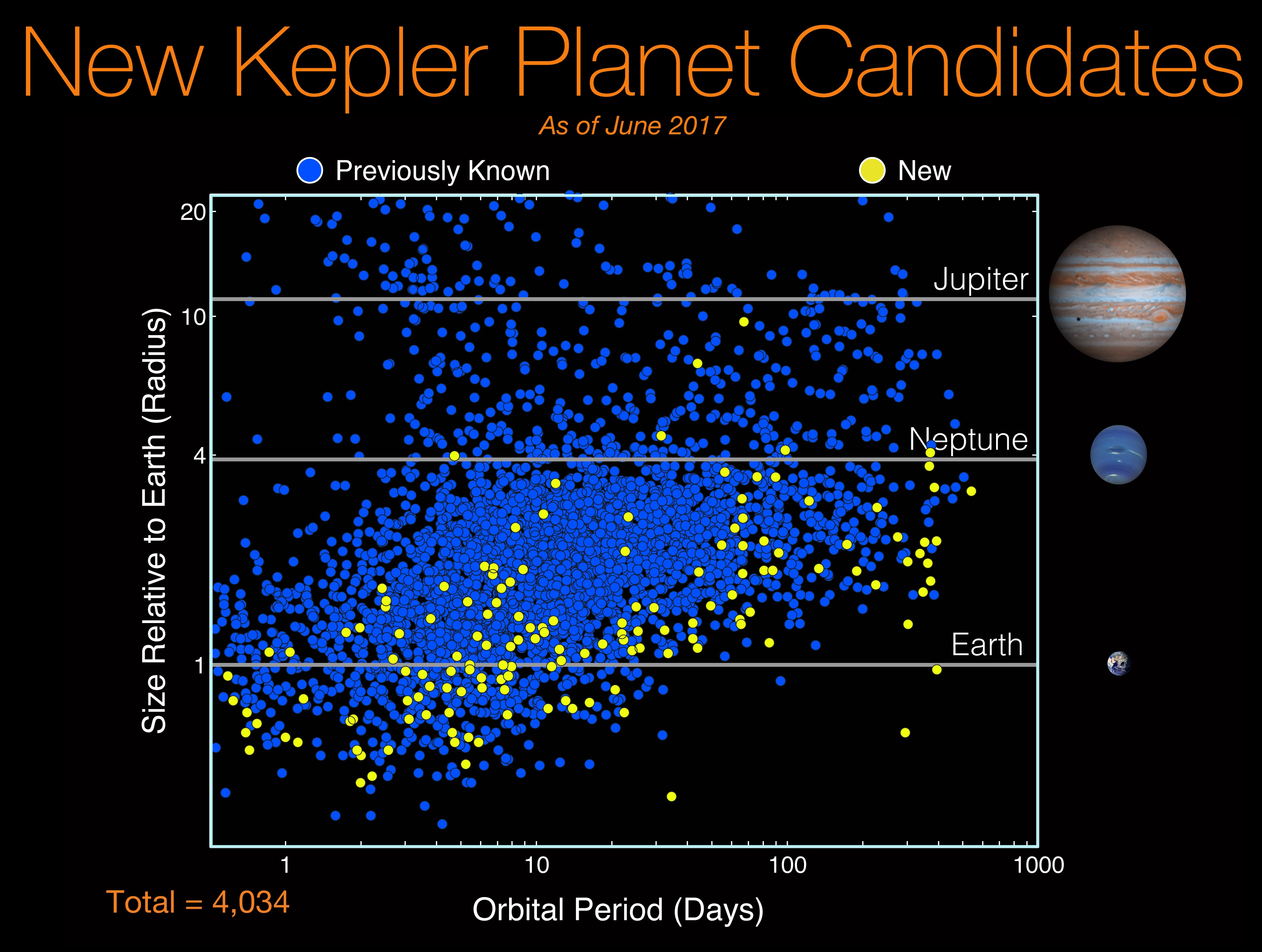 There are 4,034 planet candidates now known with the release of the eighth Kepler planet candidate catalog. Of these, 2,335 have been confirmed as planets. The blue dots show planet candidates from previous catalogs, while the yellow dots show new candidates from the eighth catalog. New planet candidates continue to be found at all periods and sizes due to continued improvement in detection techniques. Notably, 10 of these new candidates are near-Earth-size and at long orbital periods, where they have a chance of being rocky with liquid water on their surface.